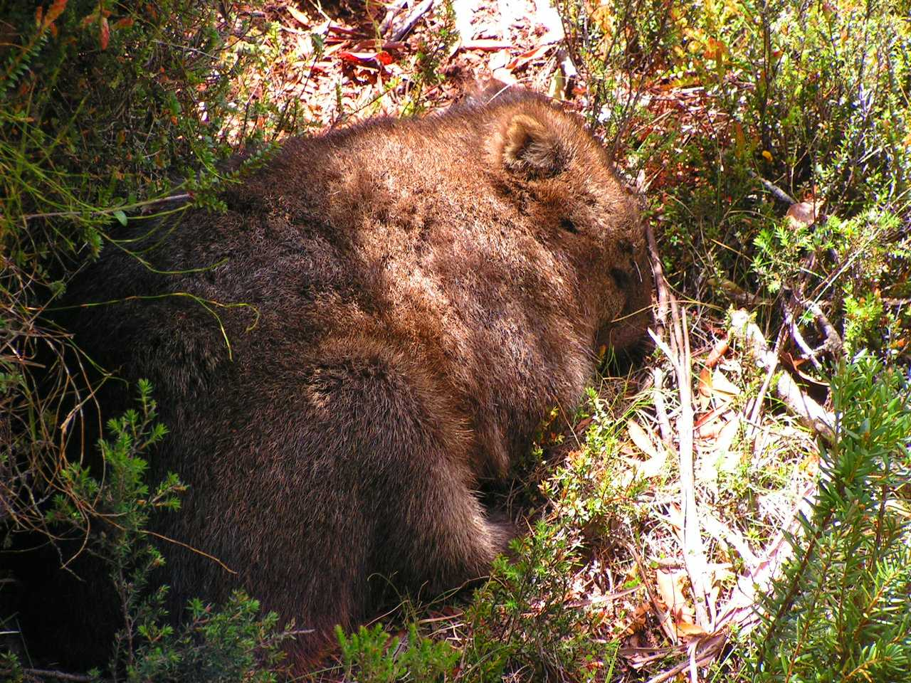 Common Wombat (Vombatus ursinus), Cradle Mountain, Tasmania